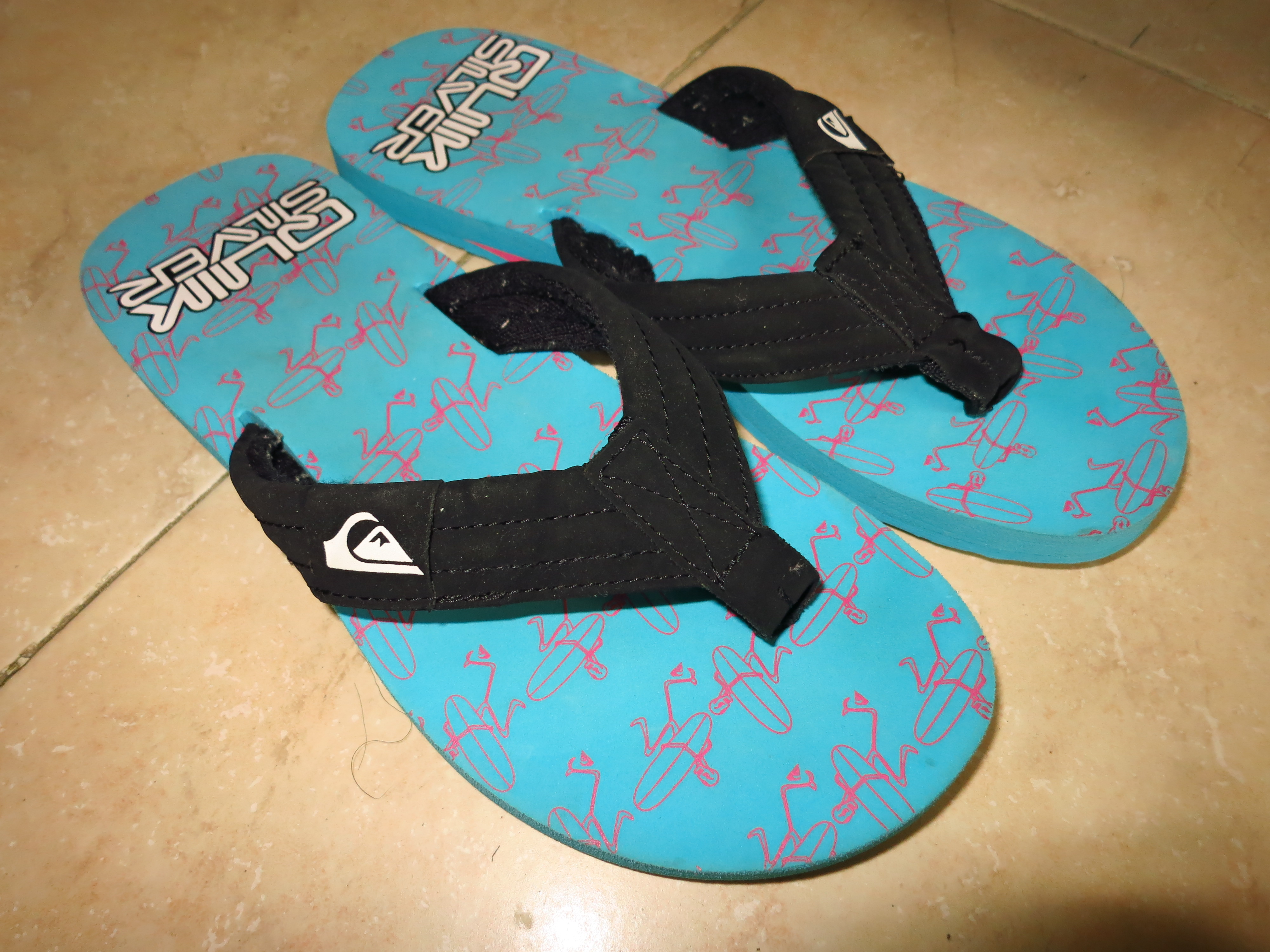 Sky blue quicksilver flip-flops in home